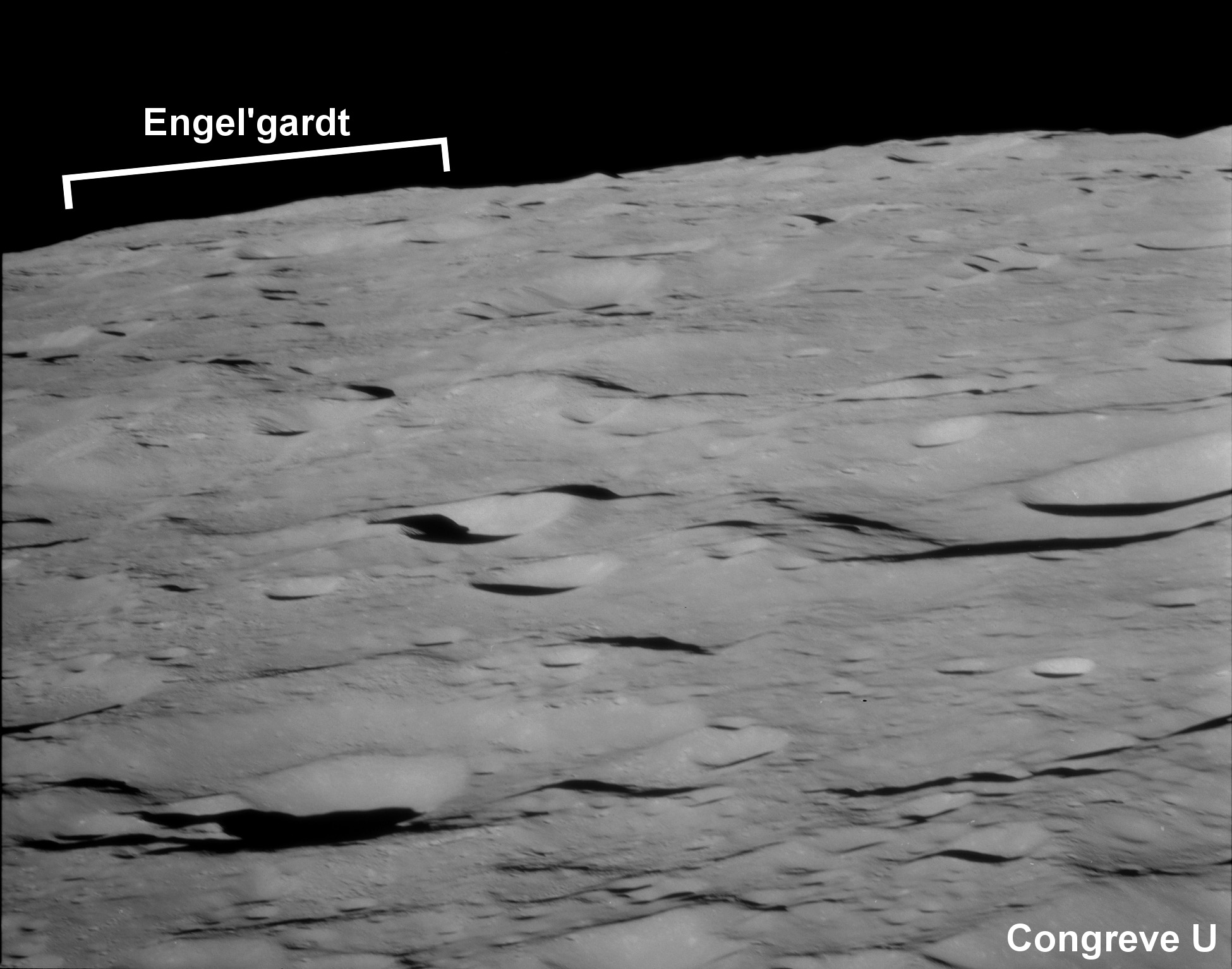 Annotated version of Apollo 11 image AS11-43-6384, showing location of east rim of Engel'gardt crater.